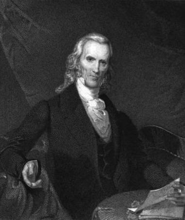 Portrait of U.S. Senator from Tennessee and Whig Party presidential candidate, Hugh Lawson White (1773–1840).